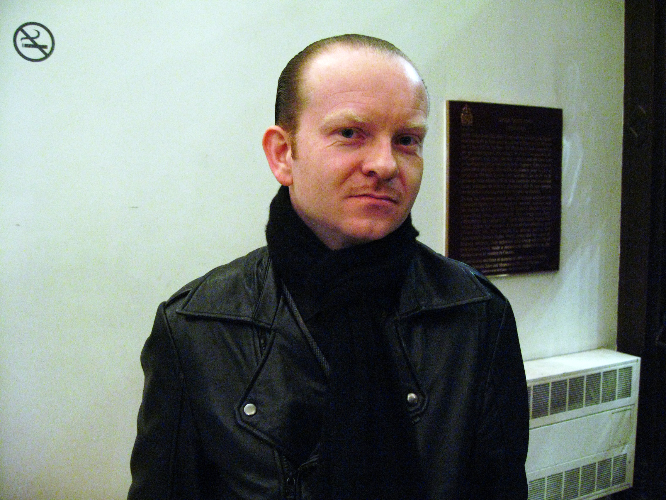 Uwe Schmidt alias Atom Heart at Mutek 10 in Montreal, Canada, 2009.